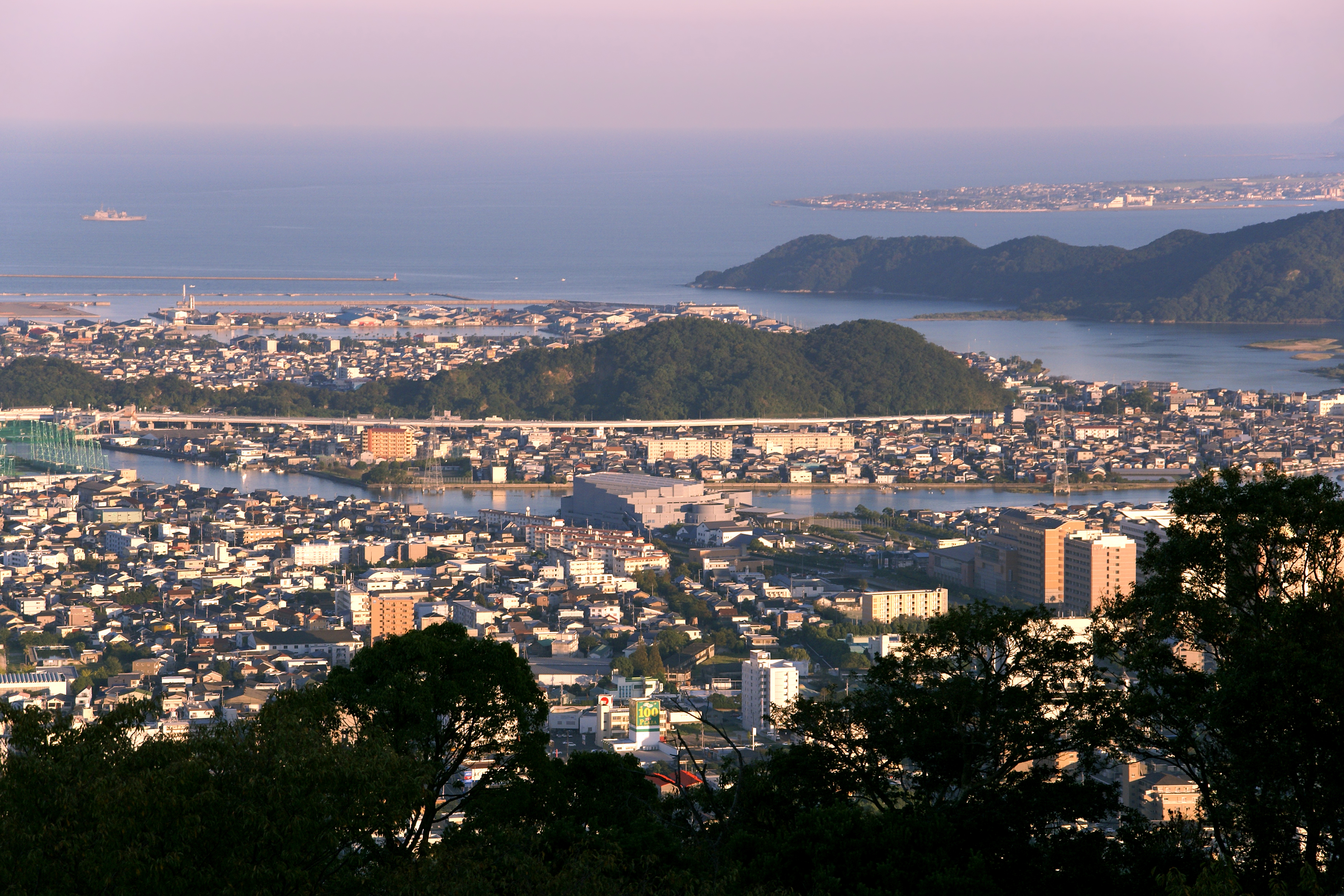 Cityscape of Tokushima seen from Bizan in Tokushima Prefecture, Japan